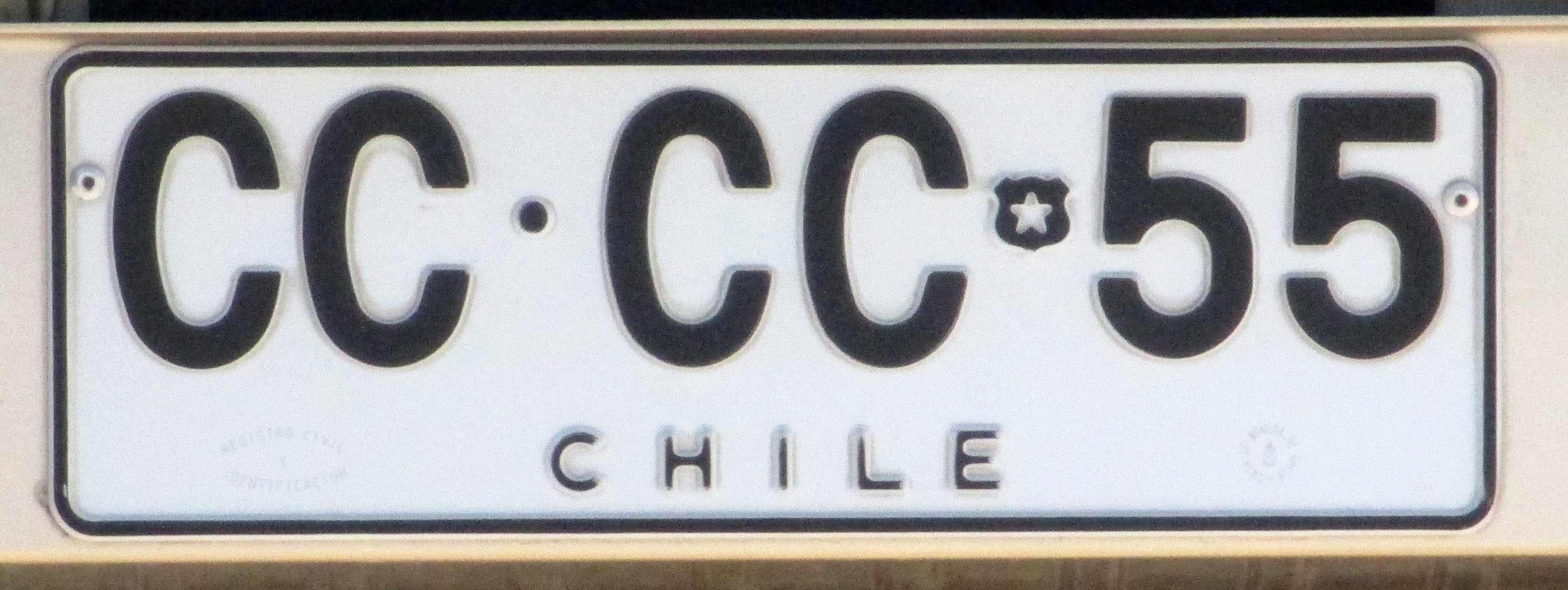 Chilean registration plate in format 3: particular